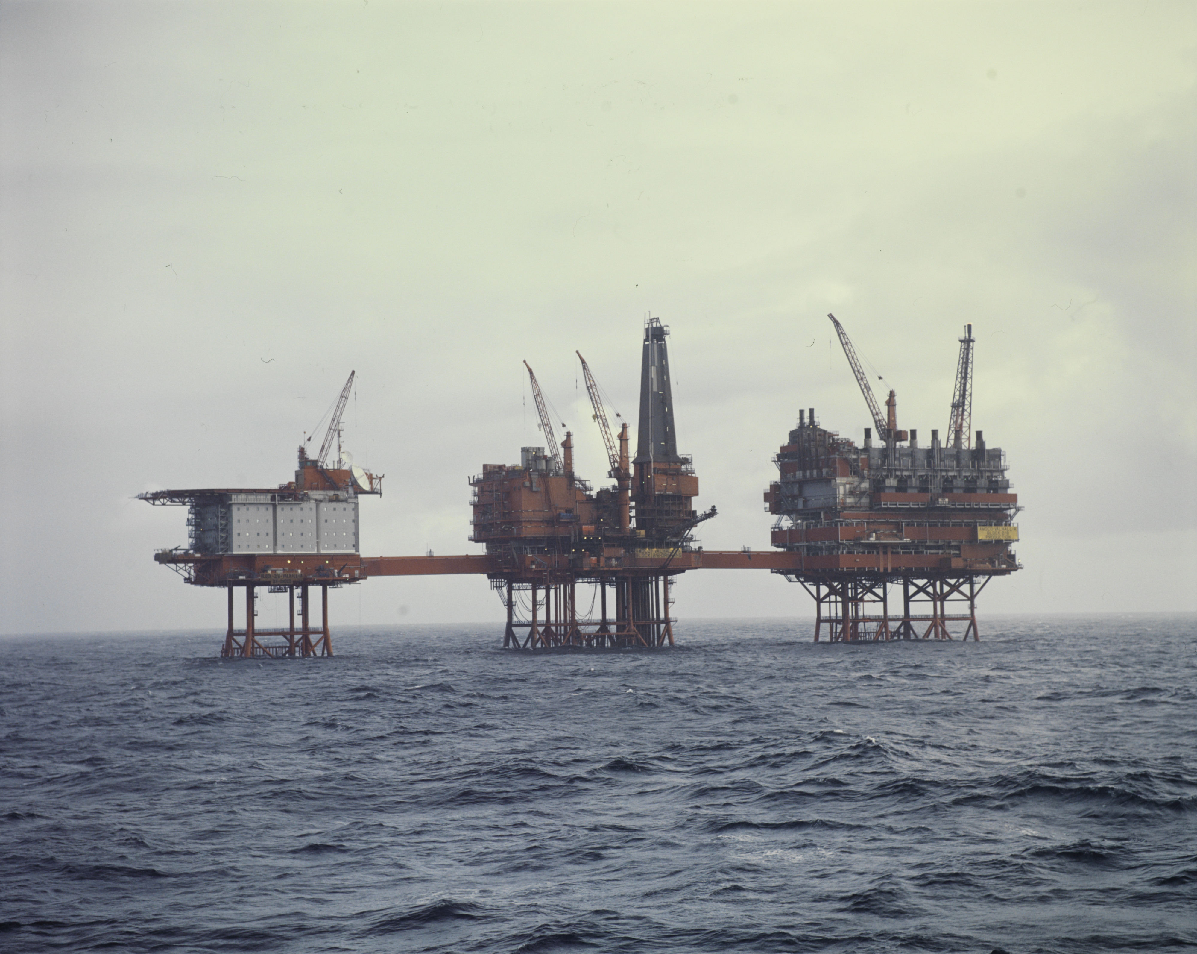 Oil platform Valhall A in the North Sea. Block: 2/8